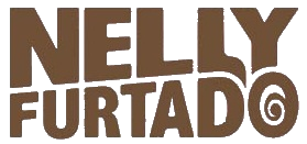 Nelly Furtado logo.